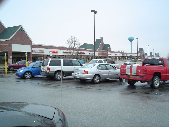 This is the Nebraska Crossing outlet mall. It is near Omaha, Nebraska in the town of Gretna, just off Interstate 80, exit 432. I took this photo while traveling through the state in November of 2004.